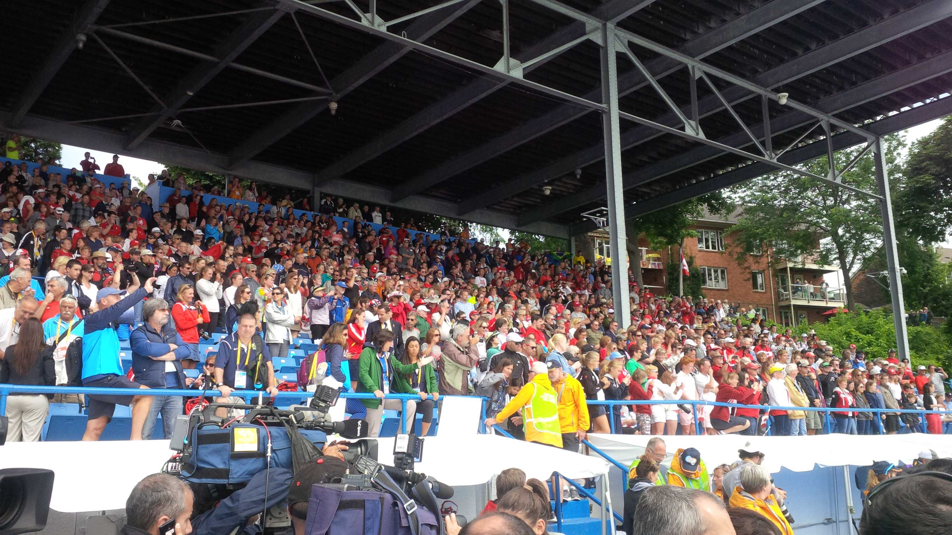 Rowing at the 2015 Pan American Games